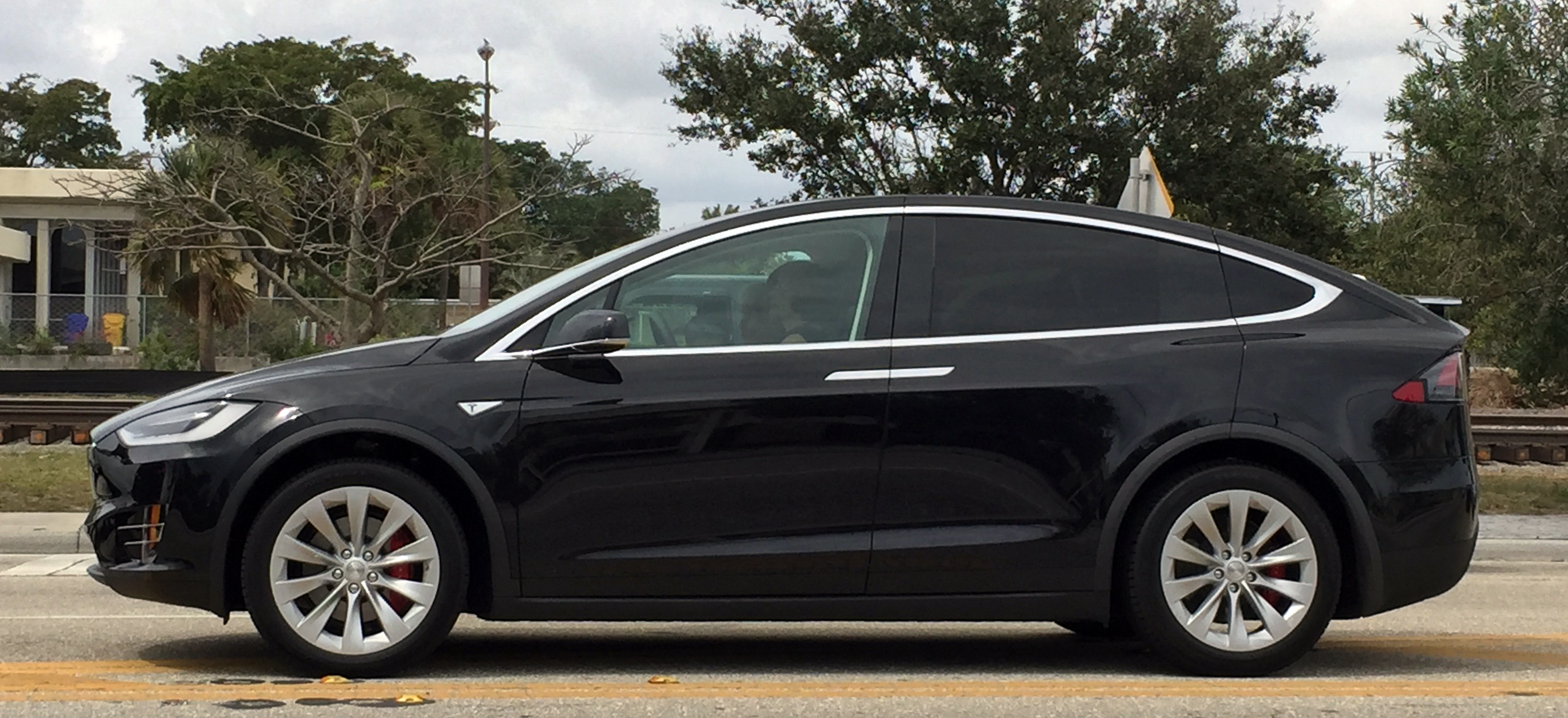 2016 Tesla Model X finished in black. Picture taken in Lantana Florida.